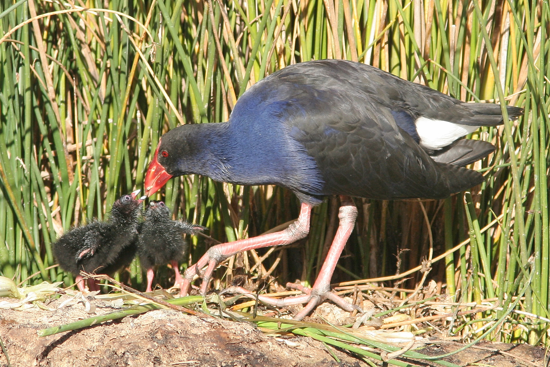 Purple Swamphen feeding chicks, Porphyrio porphyrio melanotus; wild birds